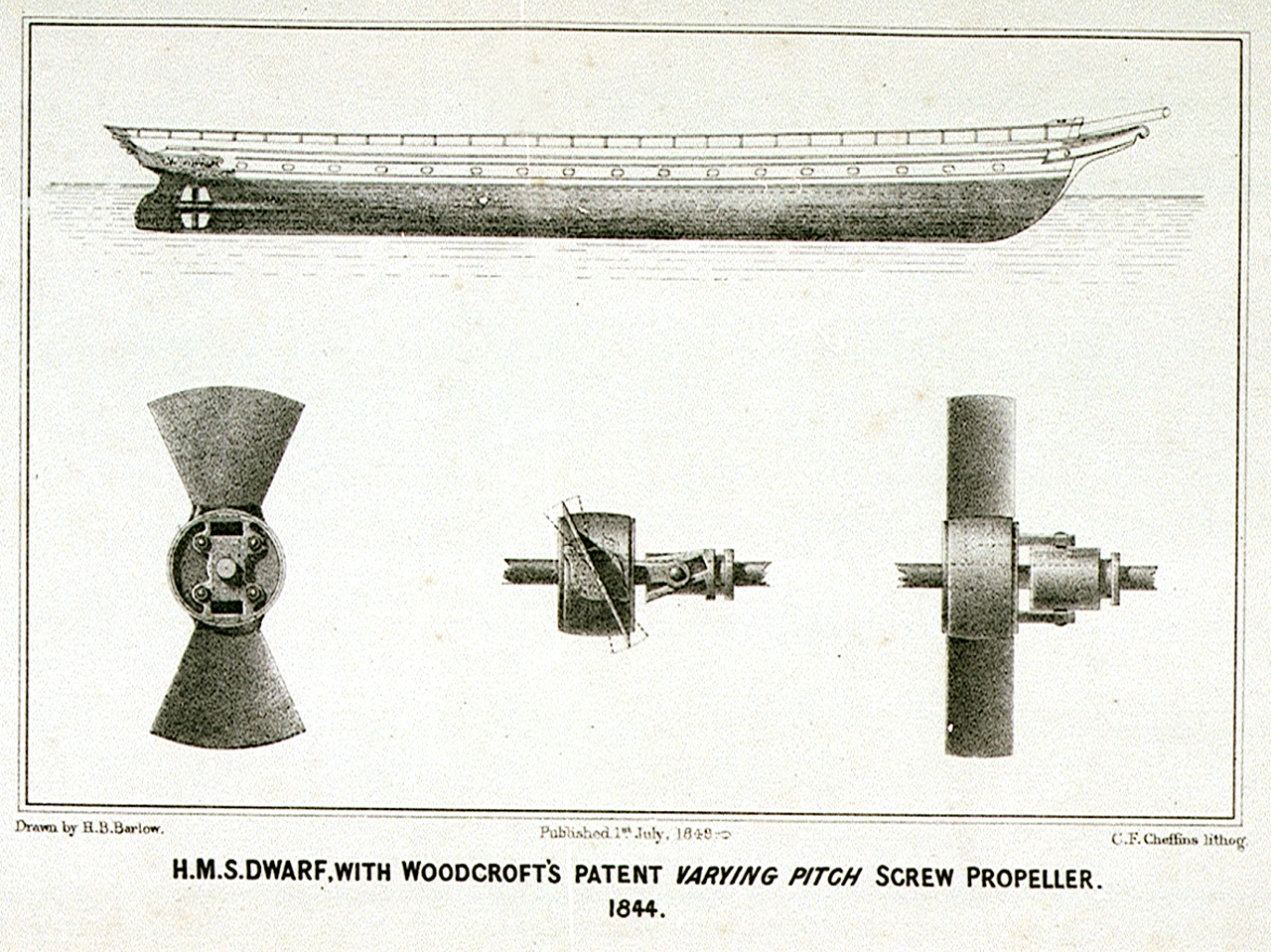 H.M.S Dwarf with Woodcroft's Patent Varying Pitch Screw Propeller 1844. Diagrammatic view of hull Print depicting a diagrammatic view of the propeller and hull of the HMS Dwarf. The Dwarf was the first screw vessel in the Royal Navy when it was bought in 1843. It was originally built in Liverpool and launched in 1834 as the Mermaid, and then adapted at Blackwall in 1842, becoming an Iron Screw vessel.